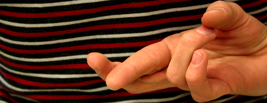 Fingers Crossed